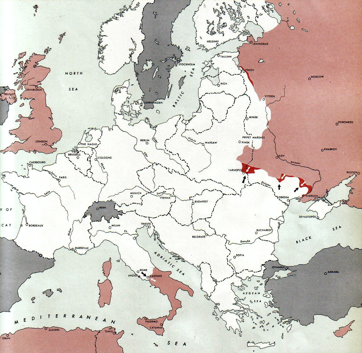 Map of the front against Germany: This map is taken from the source "Atlas of the World Battle Fronts in Semimonthly Phases to August 15th 1945: Supplement to The Biennial report of The Chief of Staff of the United States Army July 1, 1943 to June 30 1945 To the Secretary of War". (See Cover, Forward and Map details)